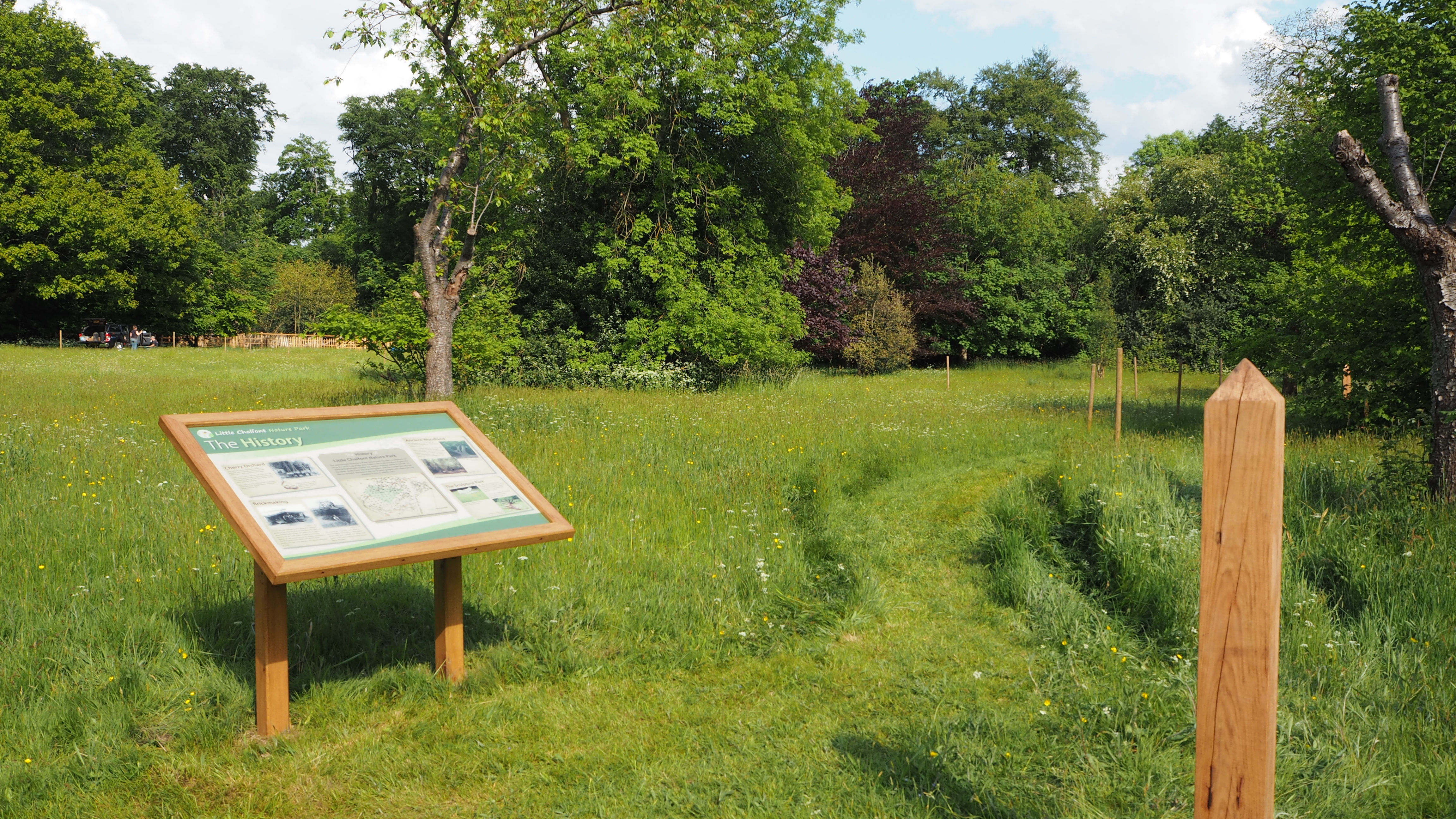 A view of The Nature Park showing the history information board